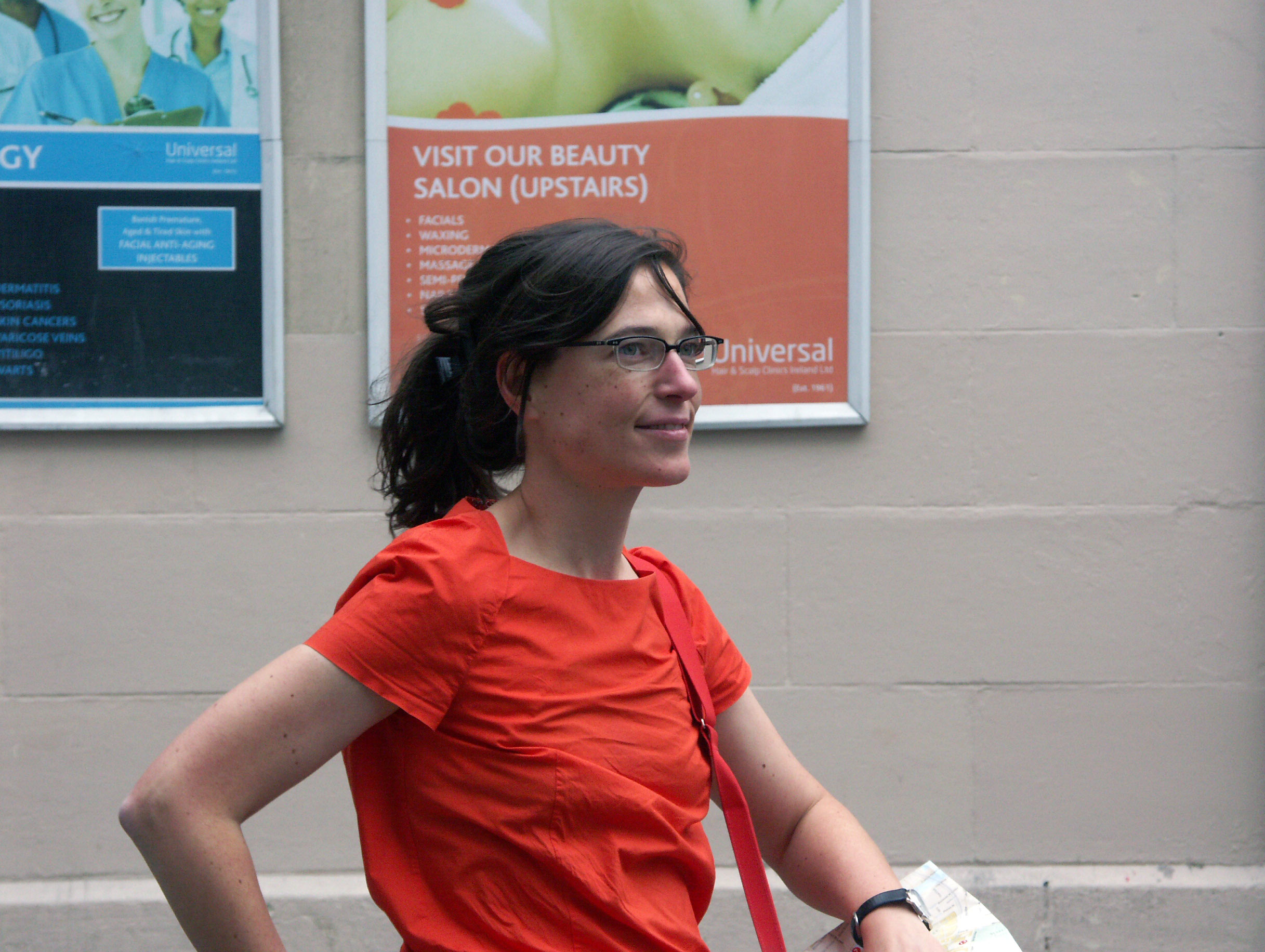 Indra Kupferschmid at the ATypI Dublin 2010 conference